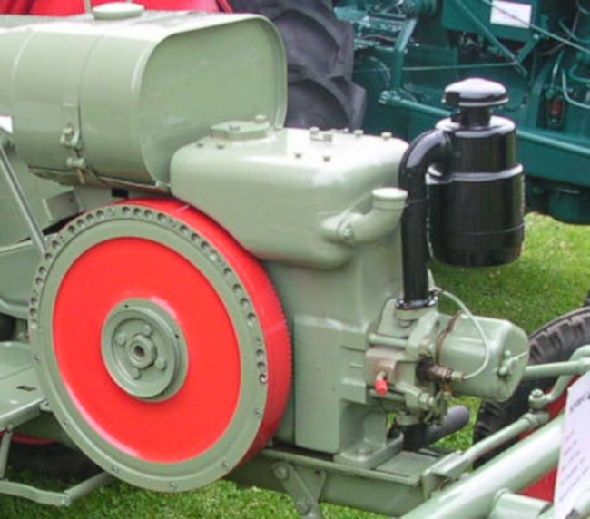 FLywheel of a Farymann engine type DL2 with 10 hp in a Normag Zorge C10 (1952)